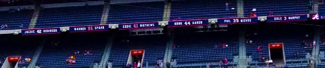 Retired numbers at turner field